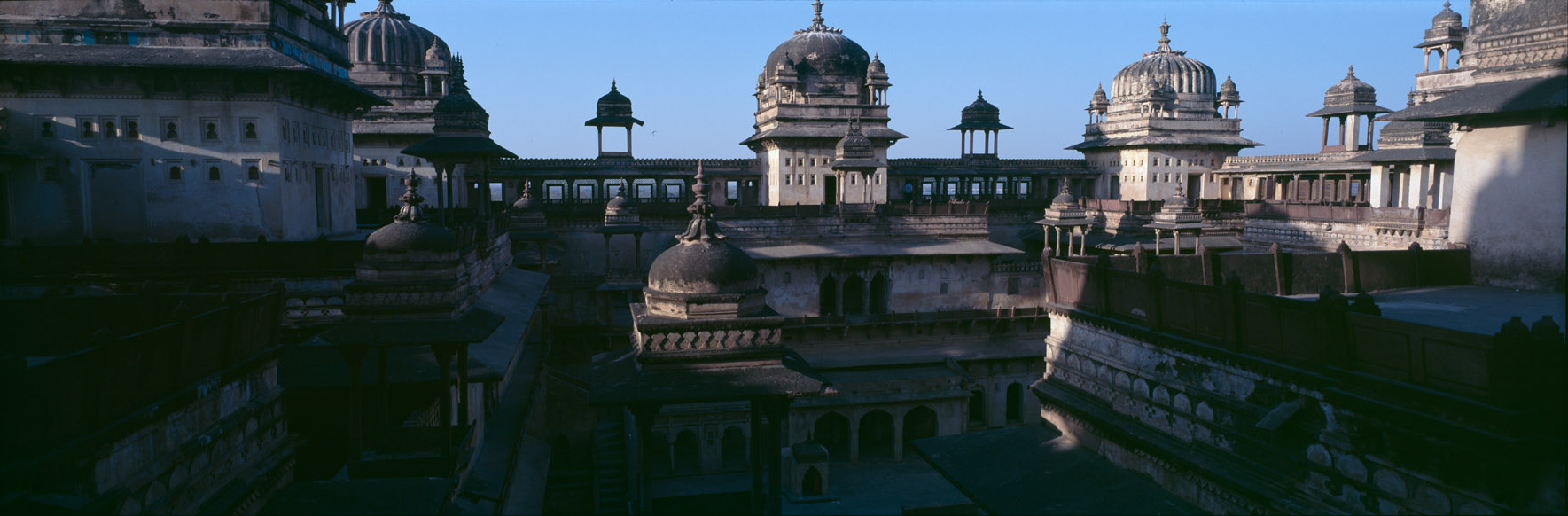 Orchha Palace